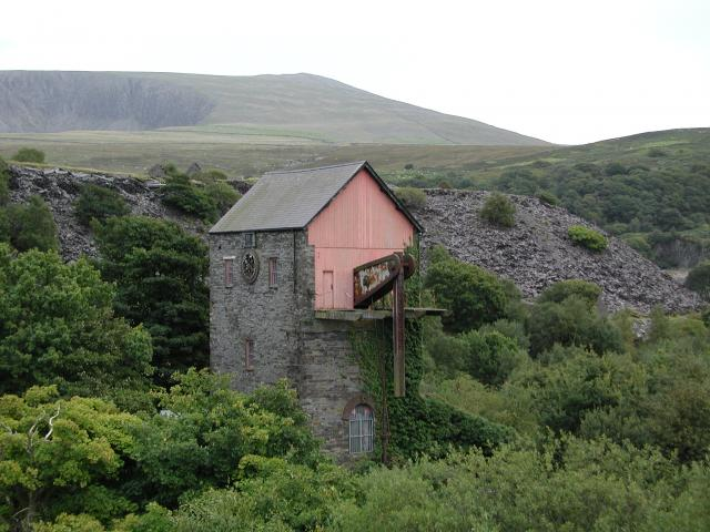 Dorothea pumping engine. The "preserved" beam pumping engine at the Nantlle Valley quarries. Comparison with 300598 and 300611 seems to show that it is in need of some tlc once again.